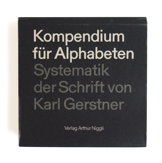 Cover of the book Kompendium für Alphabeten by Karl Gerstner, published in 1972 by Arthur Niggli. This image shows a newer edition, but the design is unchanged.